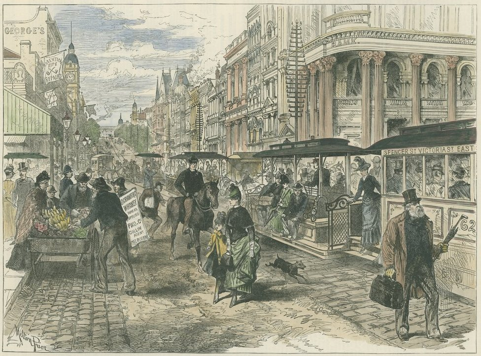 Tram in Spencer Street